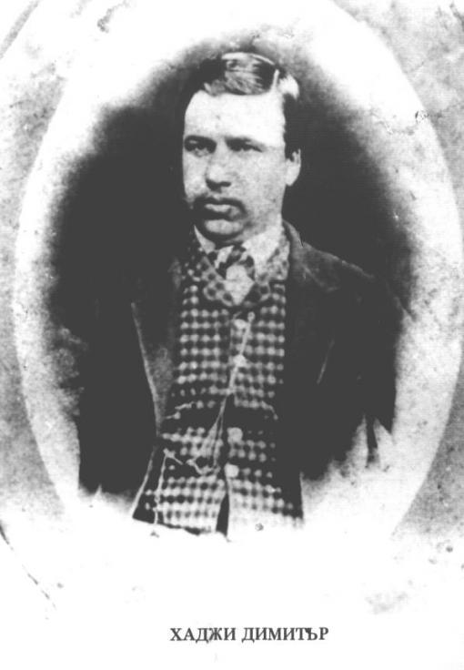 Photo portrait of Hadzhi Dimitar (1840-1868)